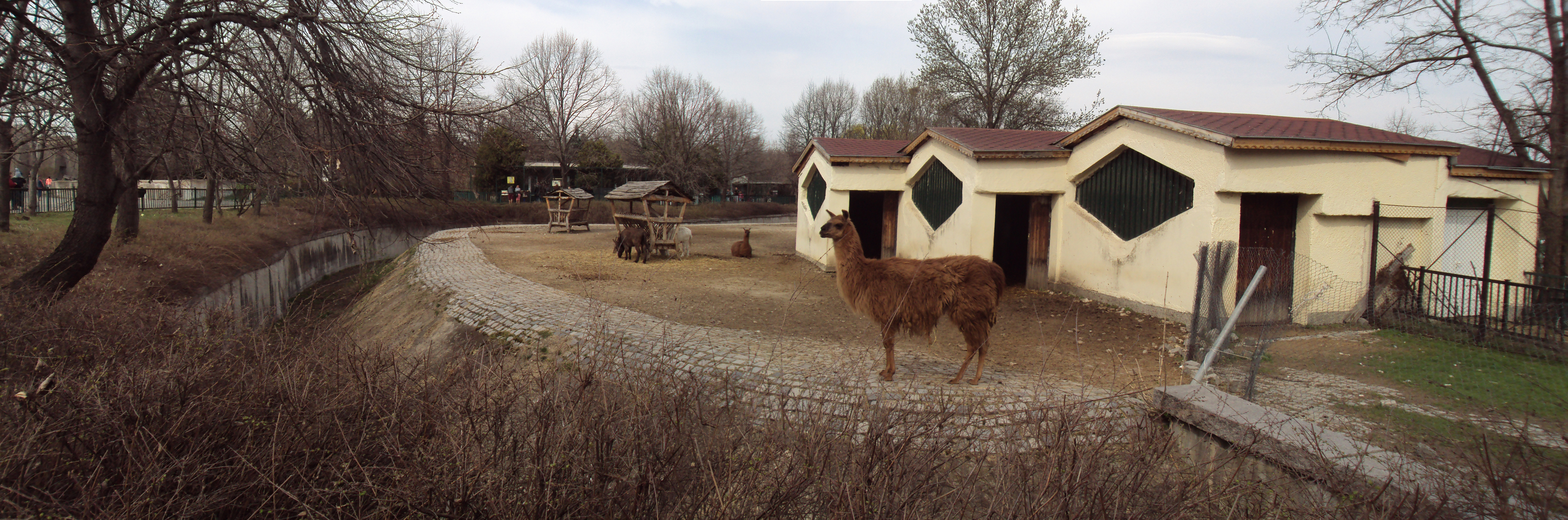 Sofia Zoo - Llama